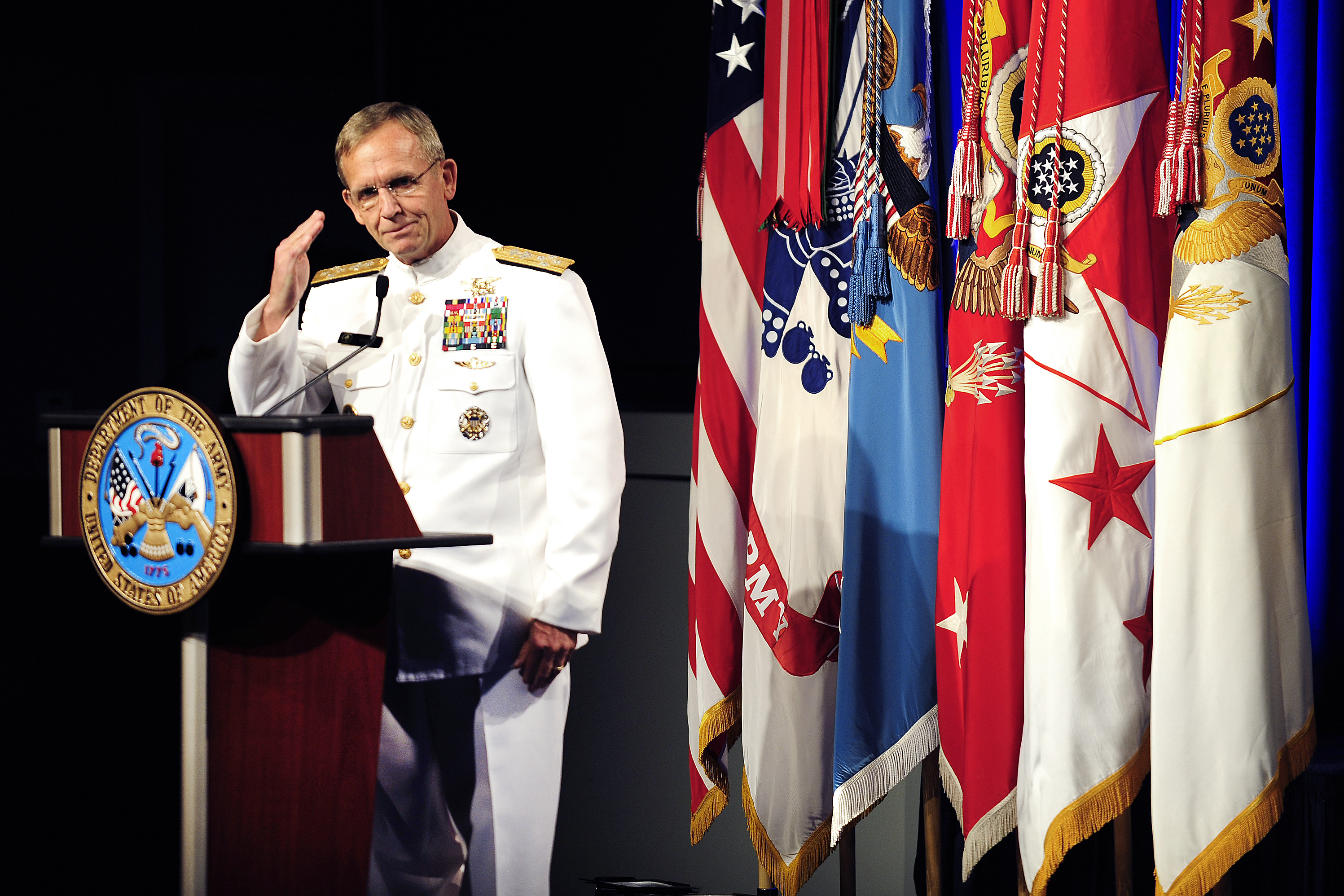 Navy Adm. Eric T. Olson, commander of U.S. Special Operations Command, salutes Medal of Honor recipient Army Sgt. 1st Class Leroy A. Petry during a ceremony inducting Petry into the Hall of Heroes at the Pentagon, July 13, 2011.